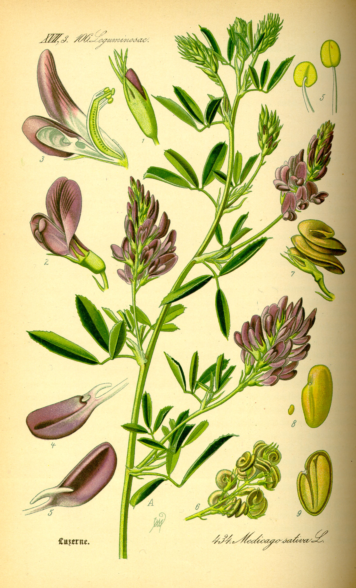 Name Medicago sativa Family Fabaceae